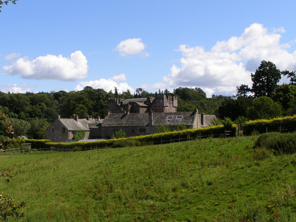 Askham Hall